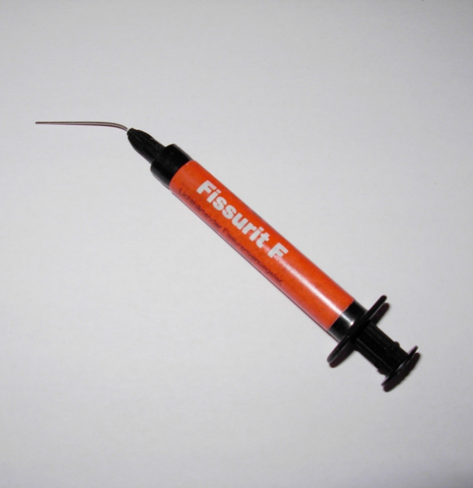 Pit and fissure sealant.